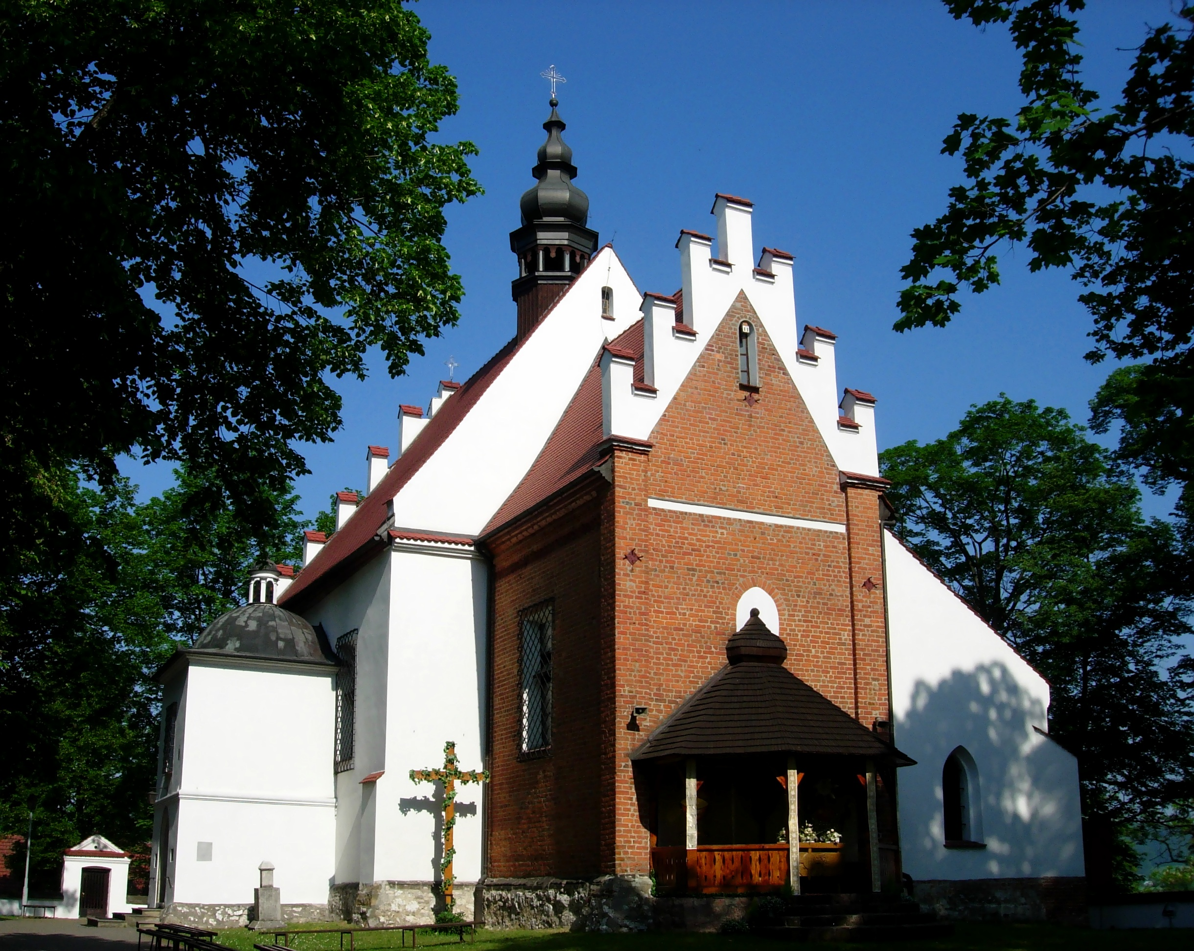 Church in Rudawa, Lesser Poland Voivodeship, Poland